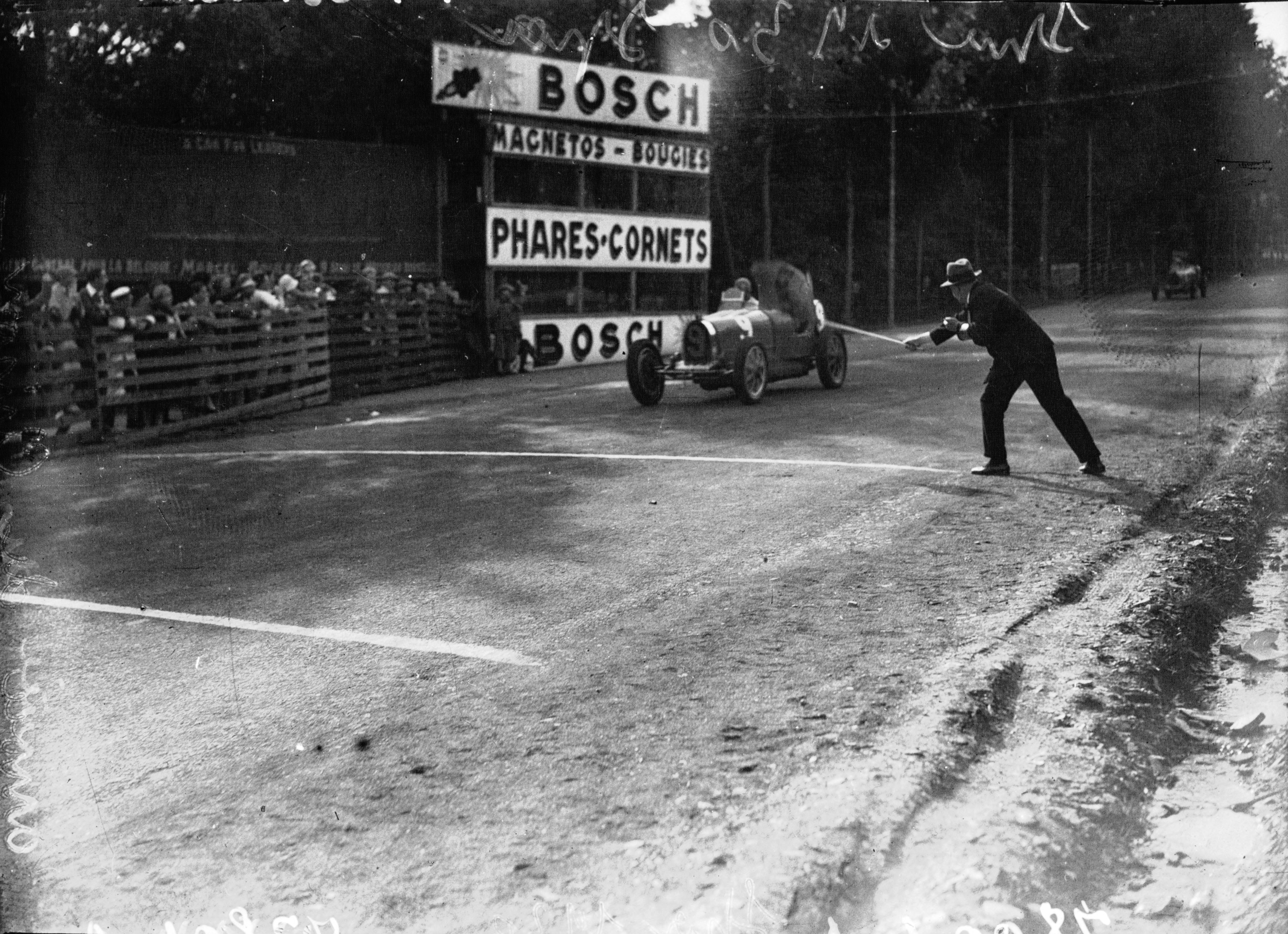 Louis Chiron winning the 1930 Belgian Grand Prix